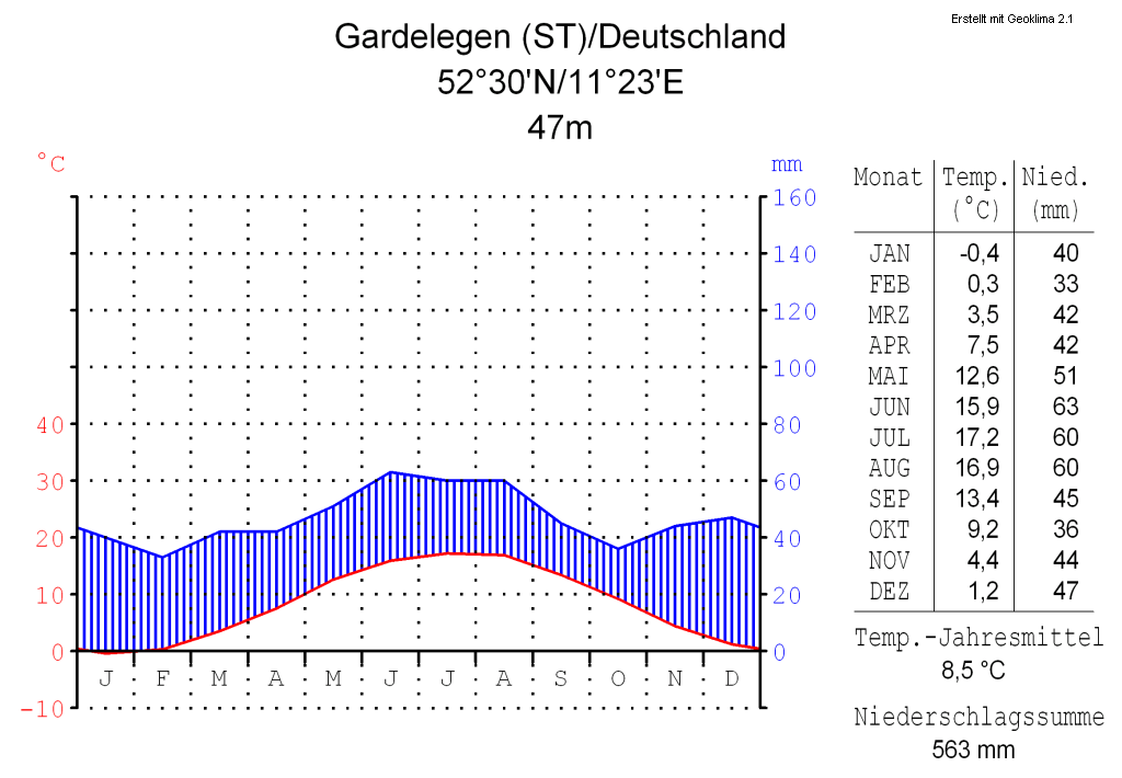 climate chart in the format by Walter and Lieth, metric, °Celsisus and millimeters, made with Geoklima 2.1